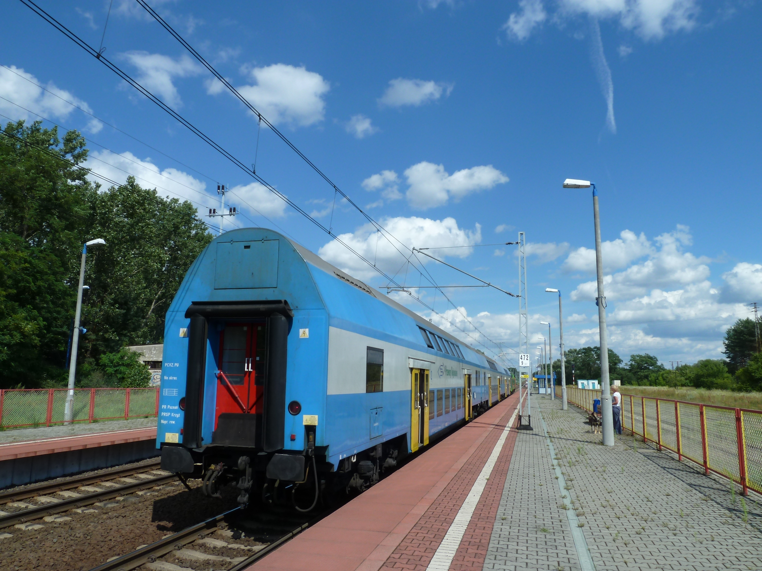 Kunowice train station, platforms